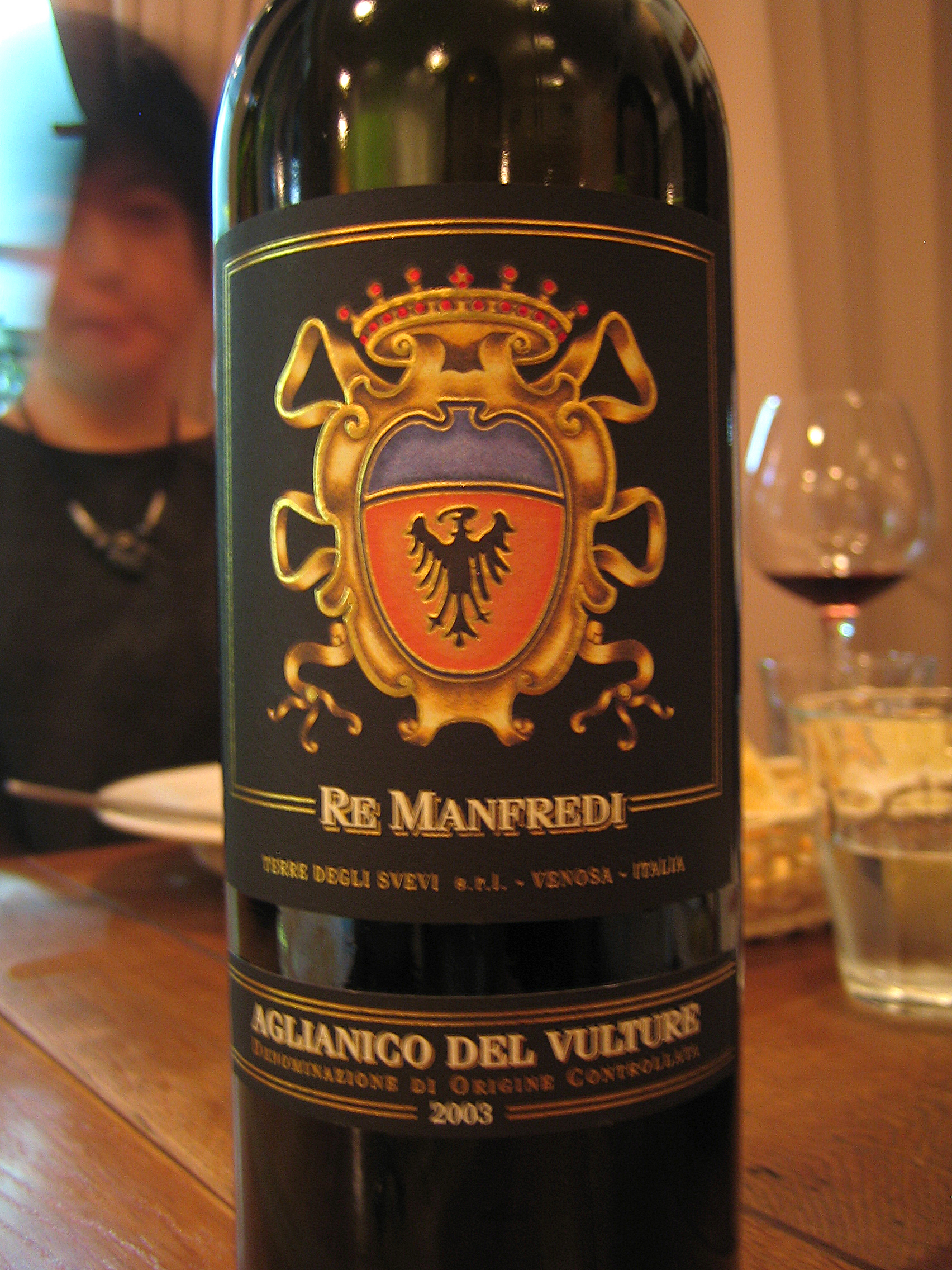 Aglianico del Vulture wine bottle